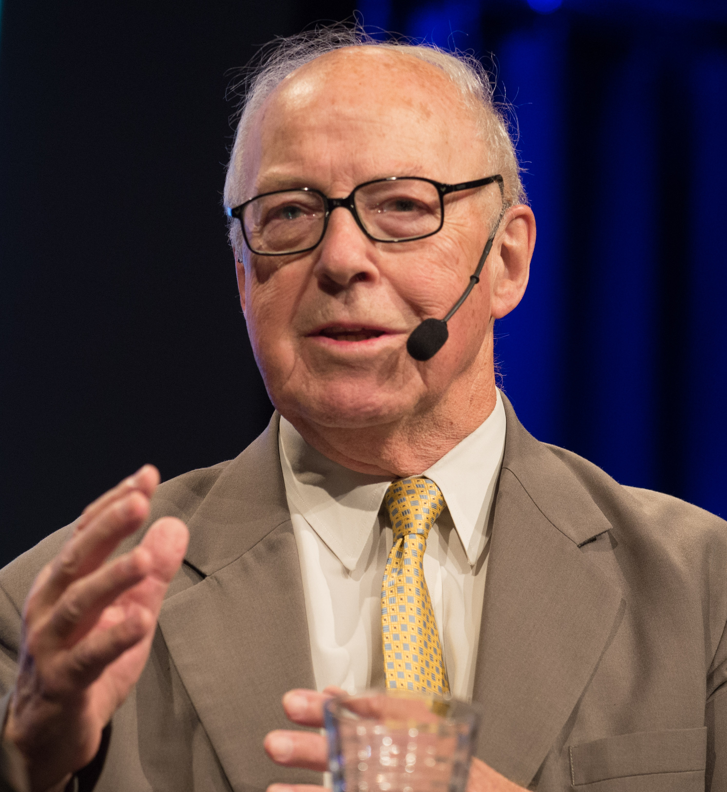 NATO debate at Kulturhuset-Stadsteatern in Stockholm 2015.